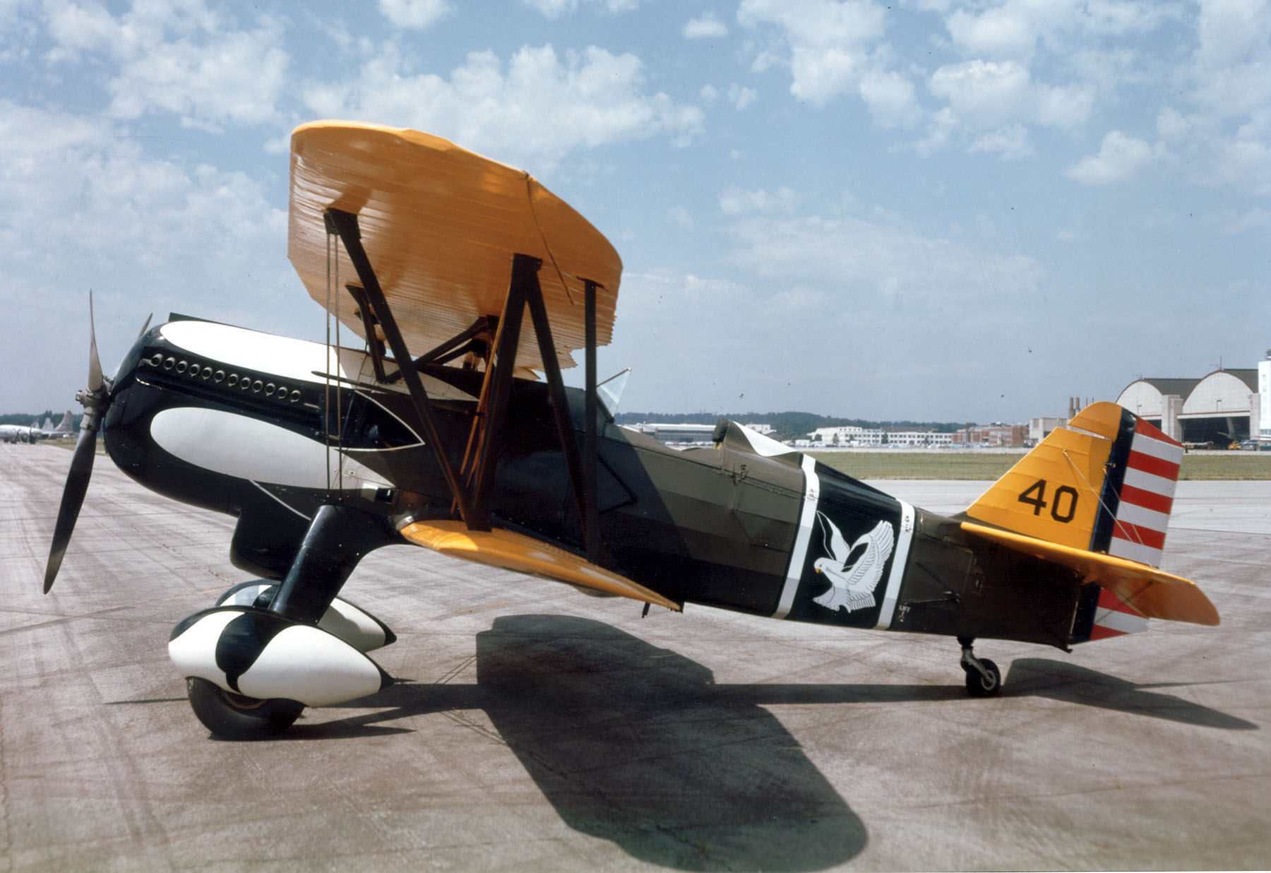 17th Pursuit Squadron - Curtiss P-6E Hawk 32-261 at the National Museum of the United States Air Force